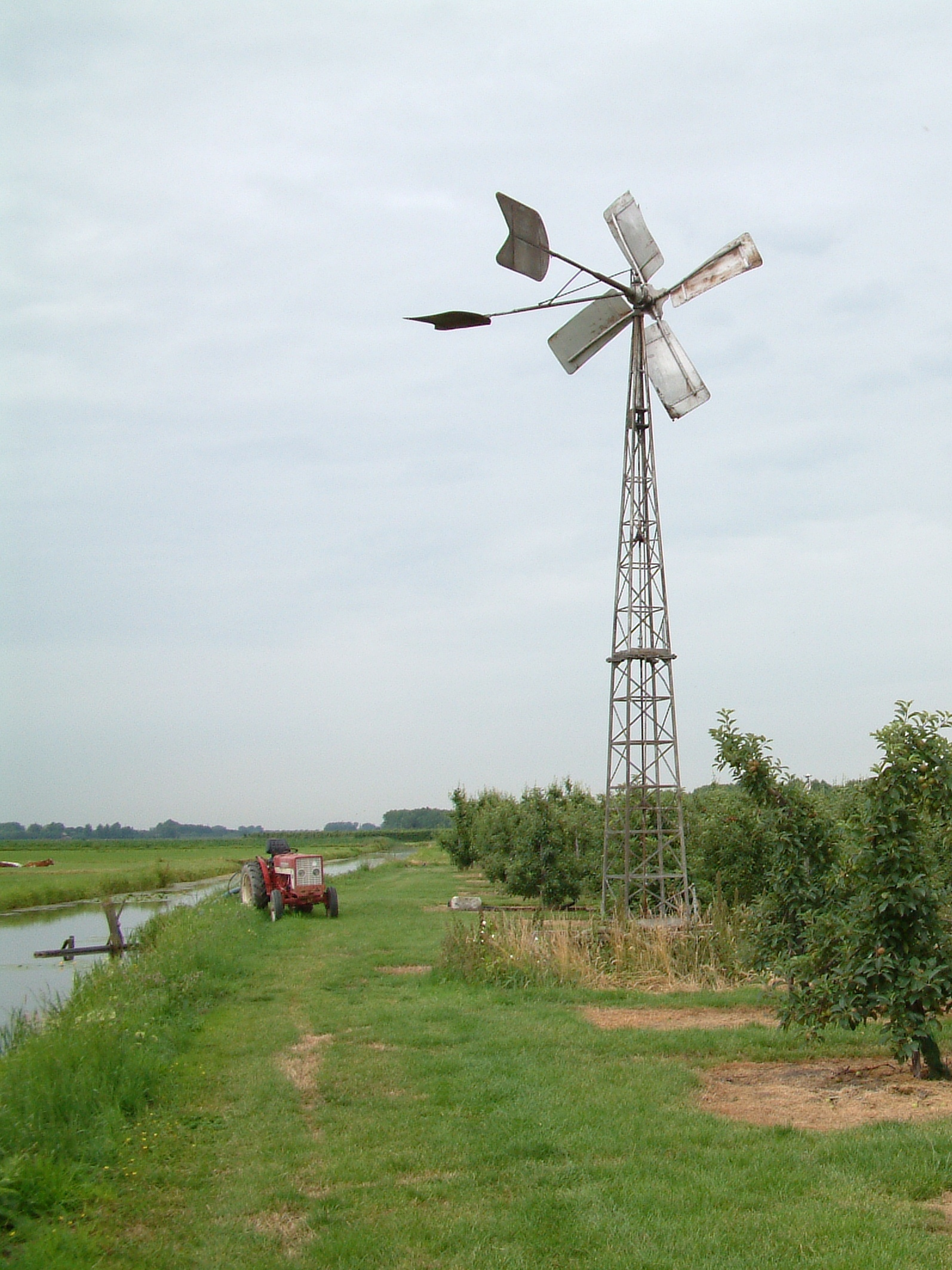 Small Windmill from the factory of Bas Bosman at Piershil. Located at the east side of the Merwedekanaal, between Arkel and Meerkerk.